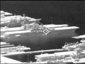 Image from EOTS